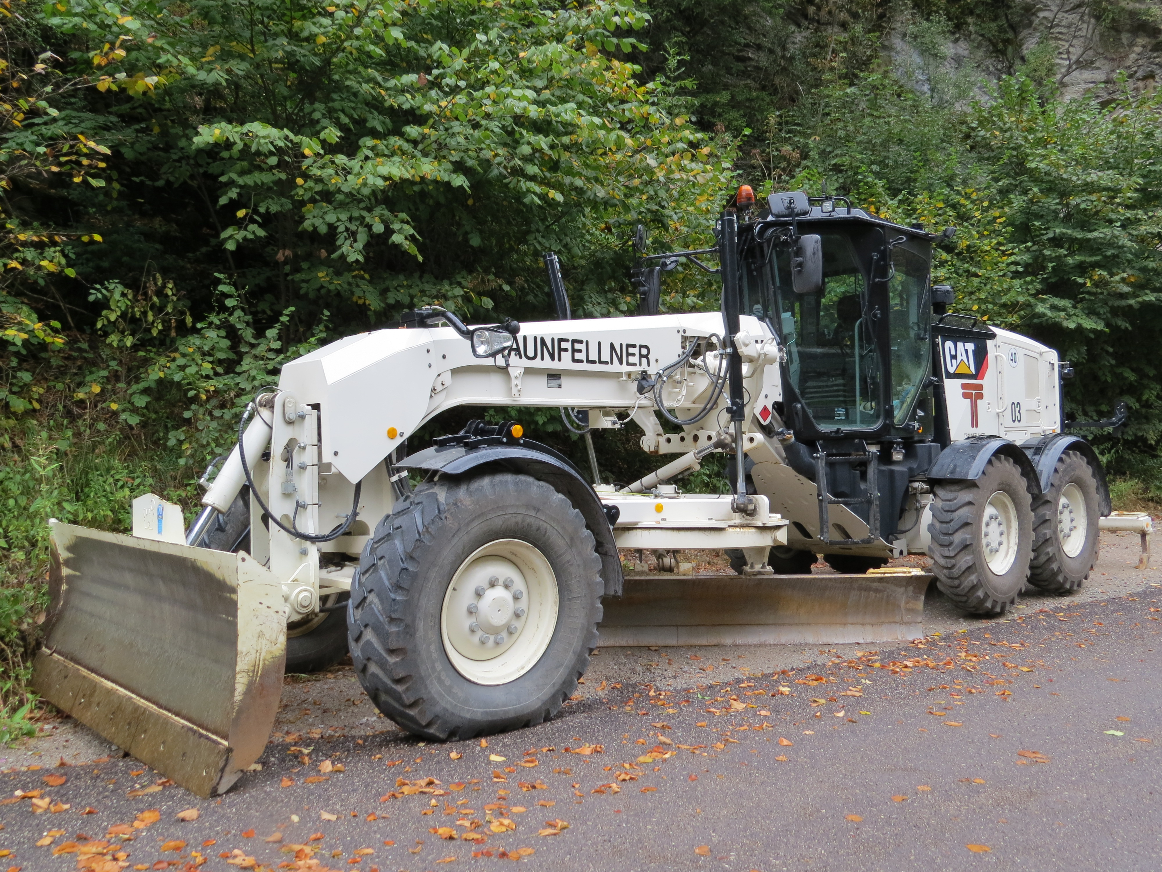 Caterpillar grader in Frankenfels, Austria